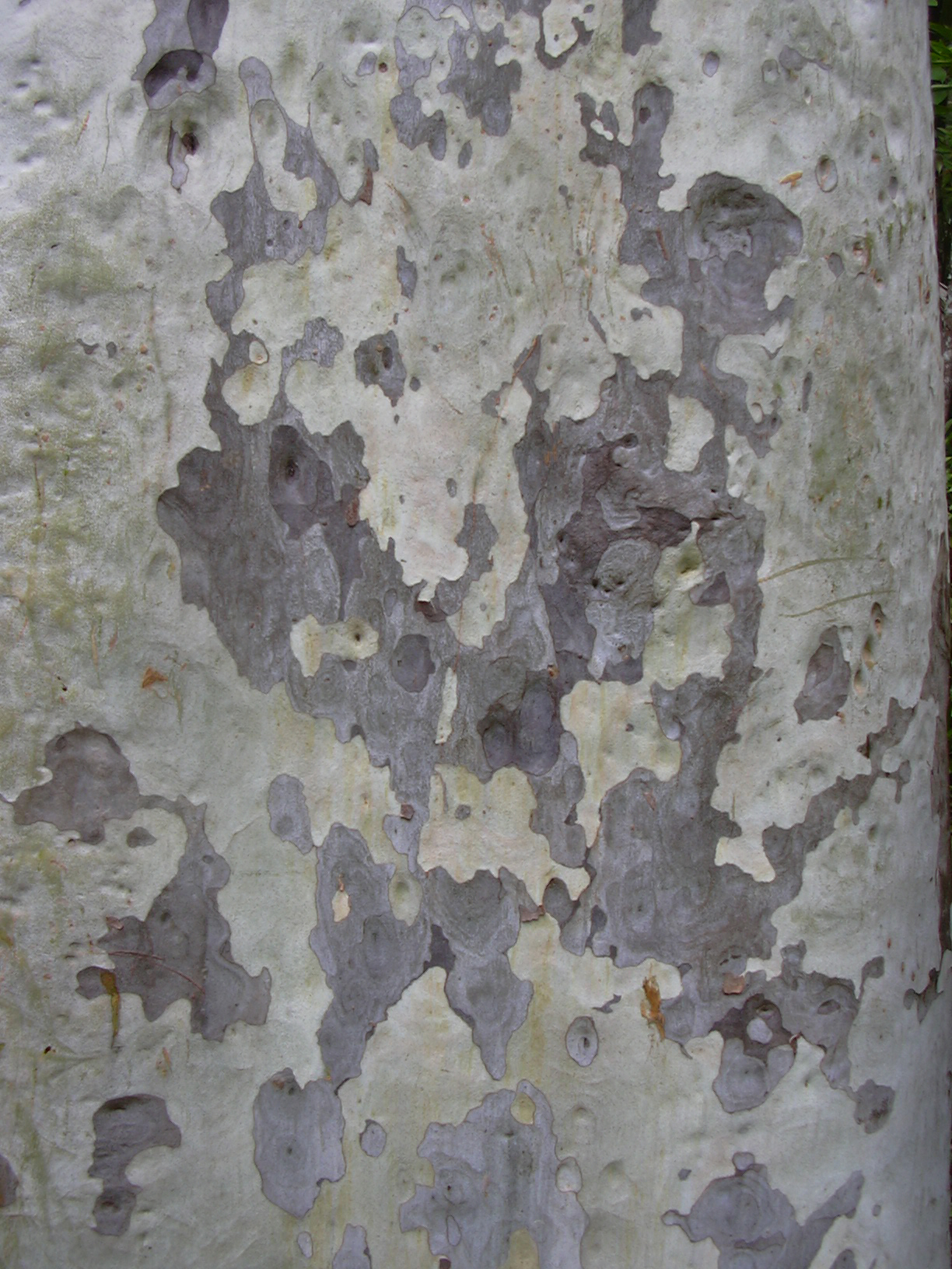 Corymbia citriodora (bark). Location: Maui, Keanae Arboretum